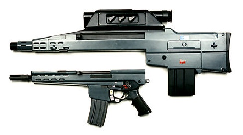 separated KE and HE part of the HK XM29